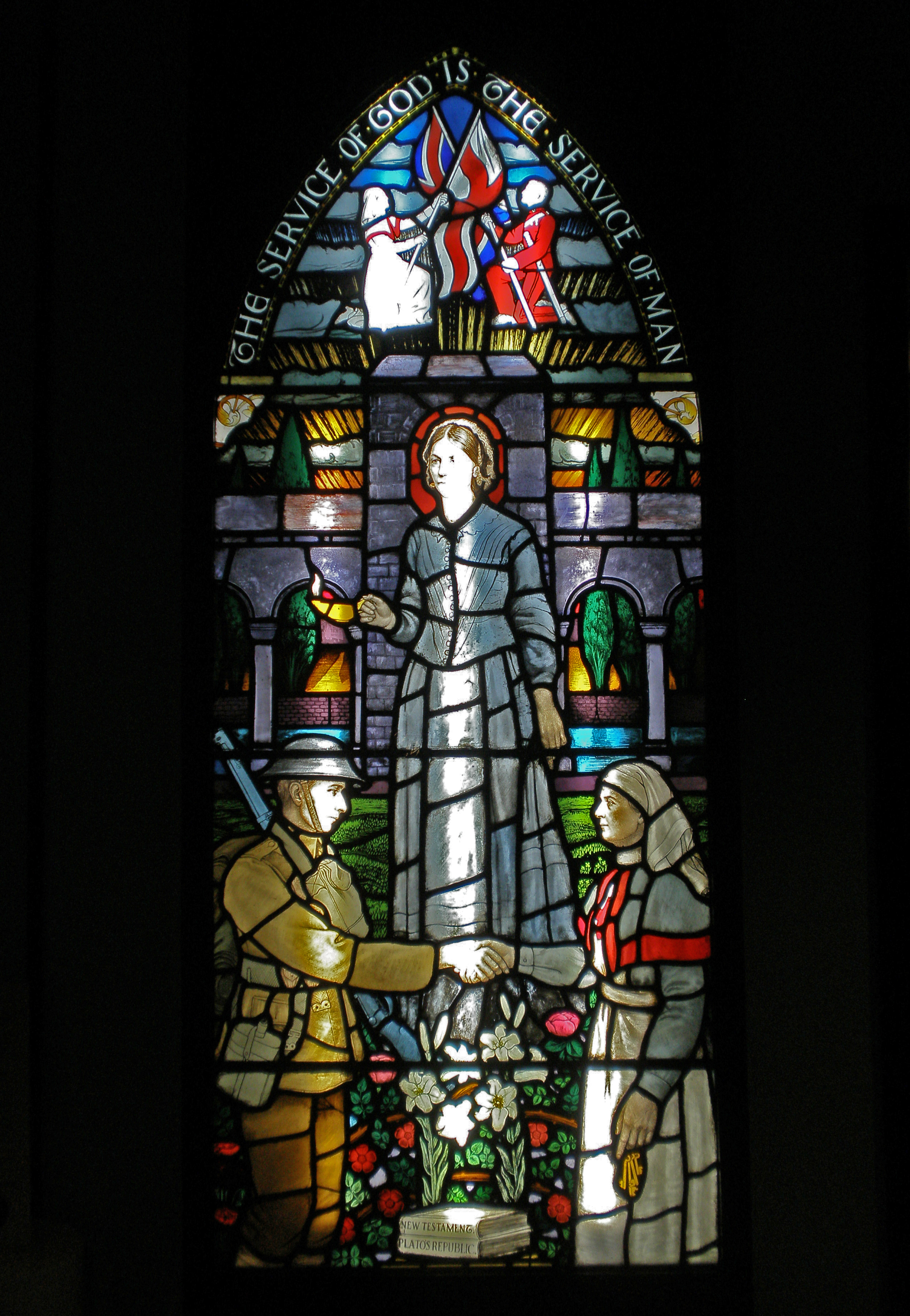 Stained glass panel, early 20th century. This painted and leaded glass 'lancet' window panel was discovered in a store at Guy's Hospital in 2016. Conservation cleaning removed layers of dirt to reveal an iconic and celebratory portrait of Florence Nightingale with soldiers and nurses from the Crimean and first World War. The glass panel may have come from Riddell House - a nurse's home established for St. Thomas' Hospital and the Nightingale Training School. Queen Mary attended the opening of Riddell House in 1937. The Times reported ' A notable feature of the new home is its furnishing, which makes it very much like a well appointed private house. Lady Riddell has provided many beautiful pieces of furniture together with a large number of pictures.....arranged to excellent effect in the sitting- rooms and corridors'. This glass portrait of Florence may be the only surviving treasure from the home.